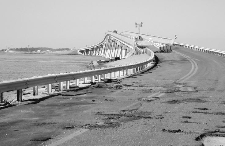 The damaging impact of Hurricane Isabel on Maryland roads and bridges has been significant